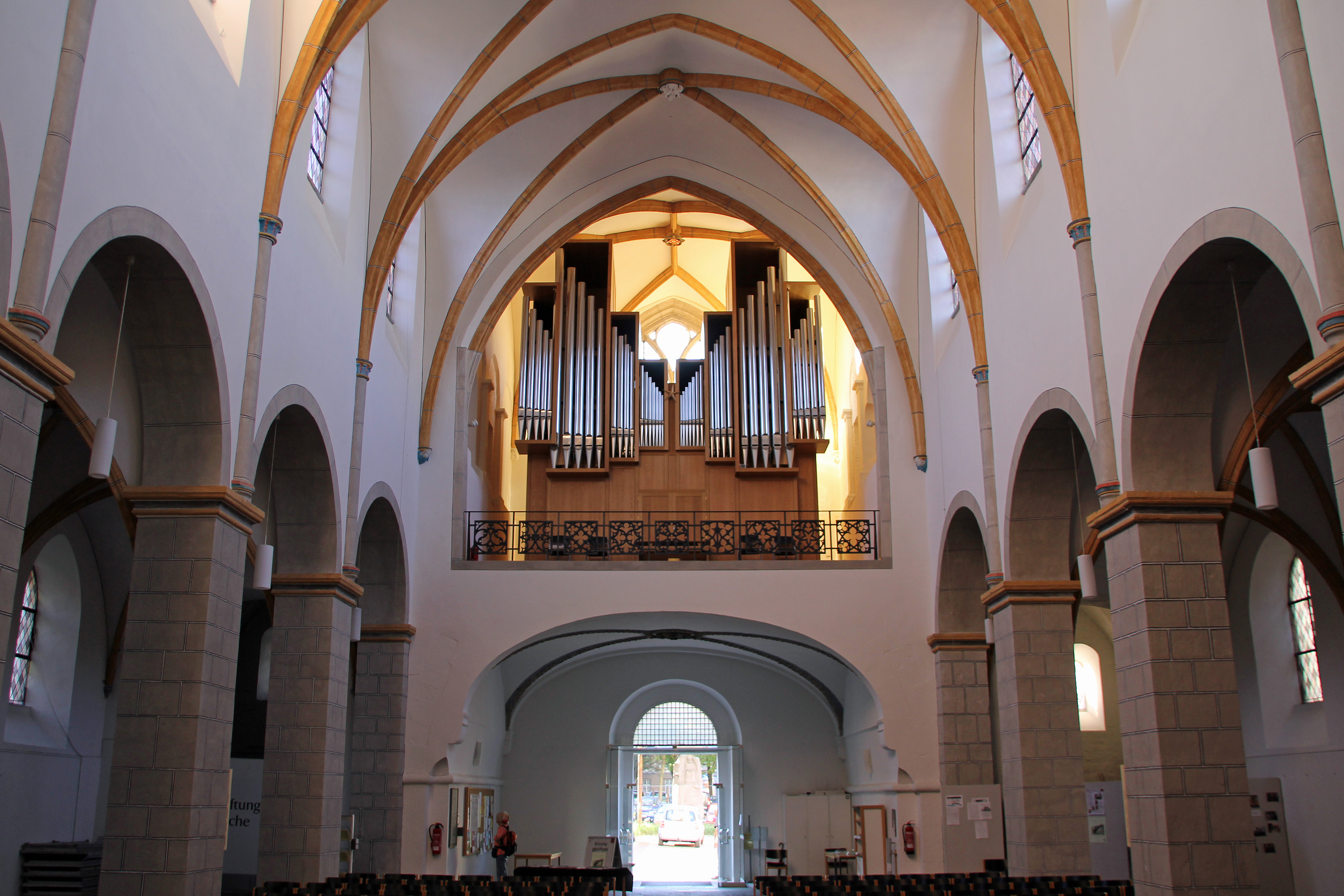 St. Florin Church in Koblenz